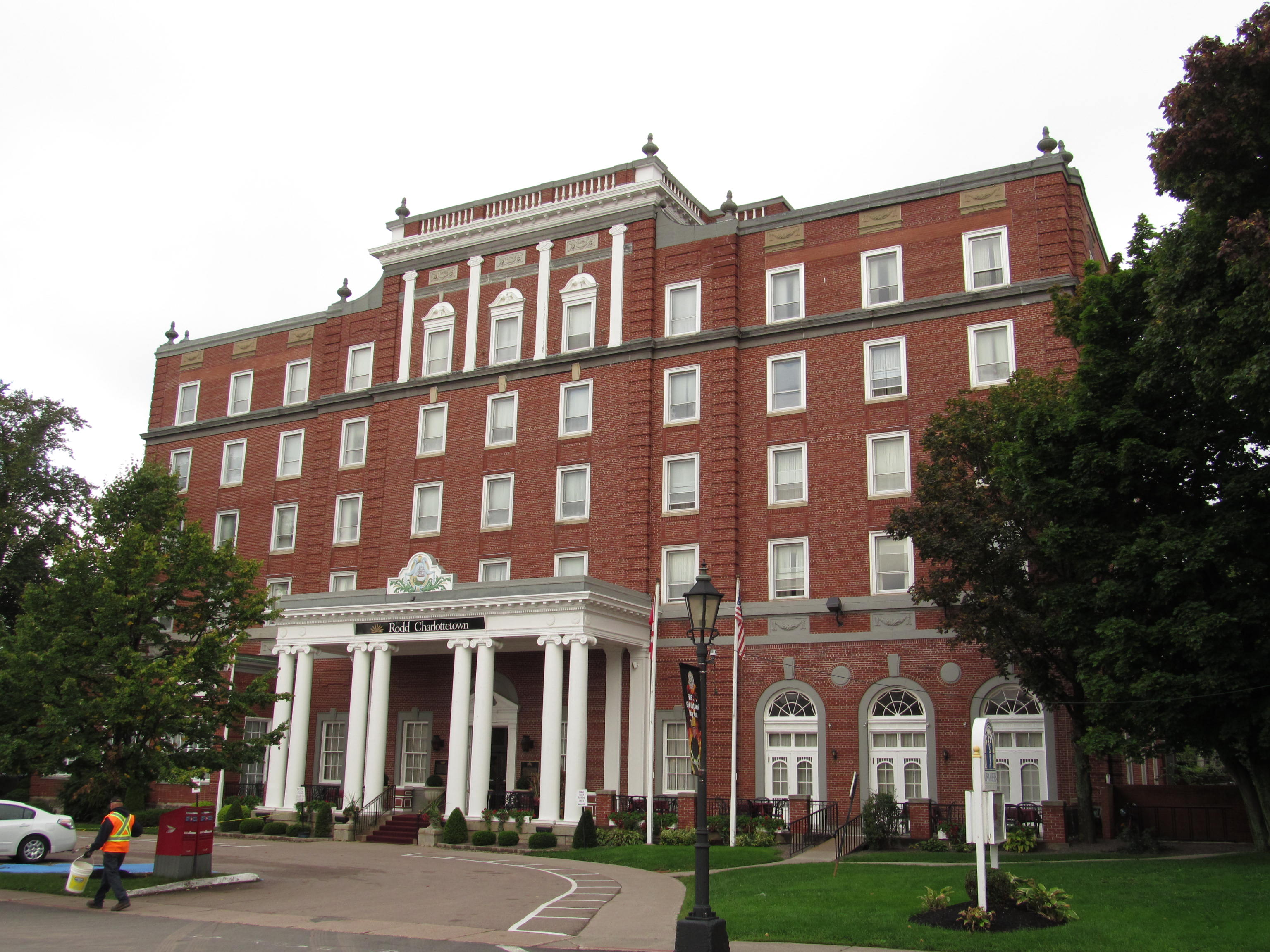 Charlottetown, Prince Edward Island